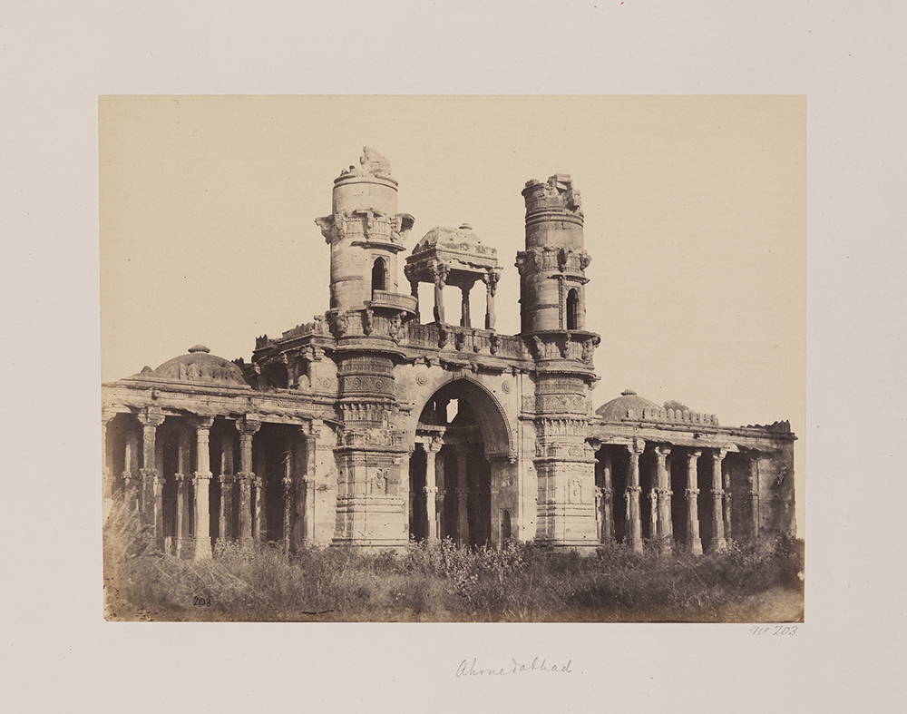 Title: Ahmedabhad. Alternative Title: [Malik Alam's Mosque] Creator: William Johnson Date: ca. 1855-1862 Series: Photographs of Western India. Volume III. Scenery, Public Buildings, &c. Part of: Photographs of Western India Place: Ahmedabad, Gujarat, India Physical Description: 1 photographic print: albumen, part of 1 volume (104 albumen prints); 20 x 26 cm on 35 x 42 cm mount File: vault_ag2002_1407x_3_203_ahmedabhad_opt.jpg Rights: Please cite Southern Methodist University, Central University Libraries, DeGolyer Library when using this image file. A high-quality version of this file may be obtained for a fee by contacting . For more information and to view the image in high resolution, see: View Europe, India, and Asia: Photographs, Manuscripts, and Imprints